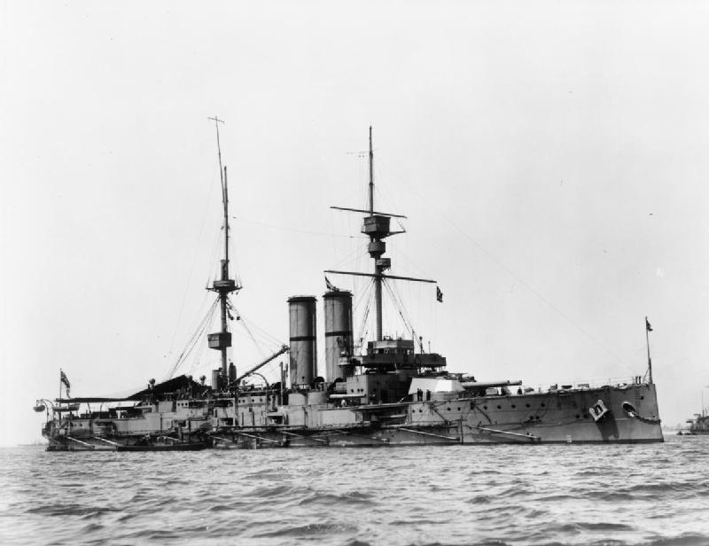 Photograph of British battleship HMS Hibernia.